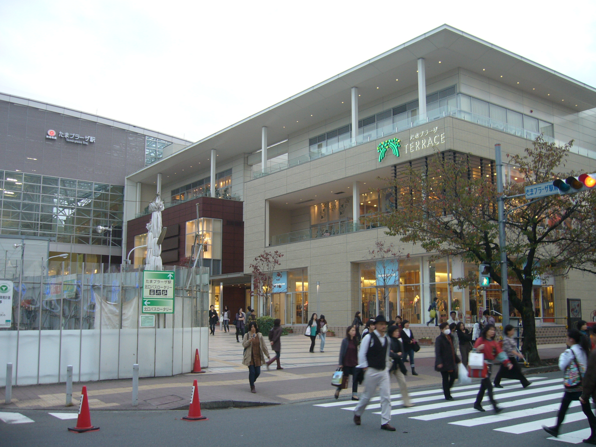 Tokyu Den-En-Toshi Line, Aoba, Yokohama, Kanagawa.